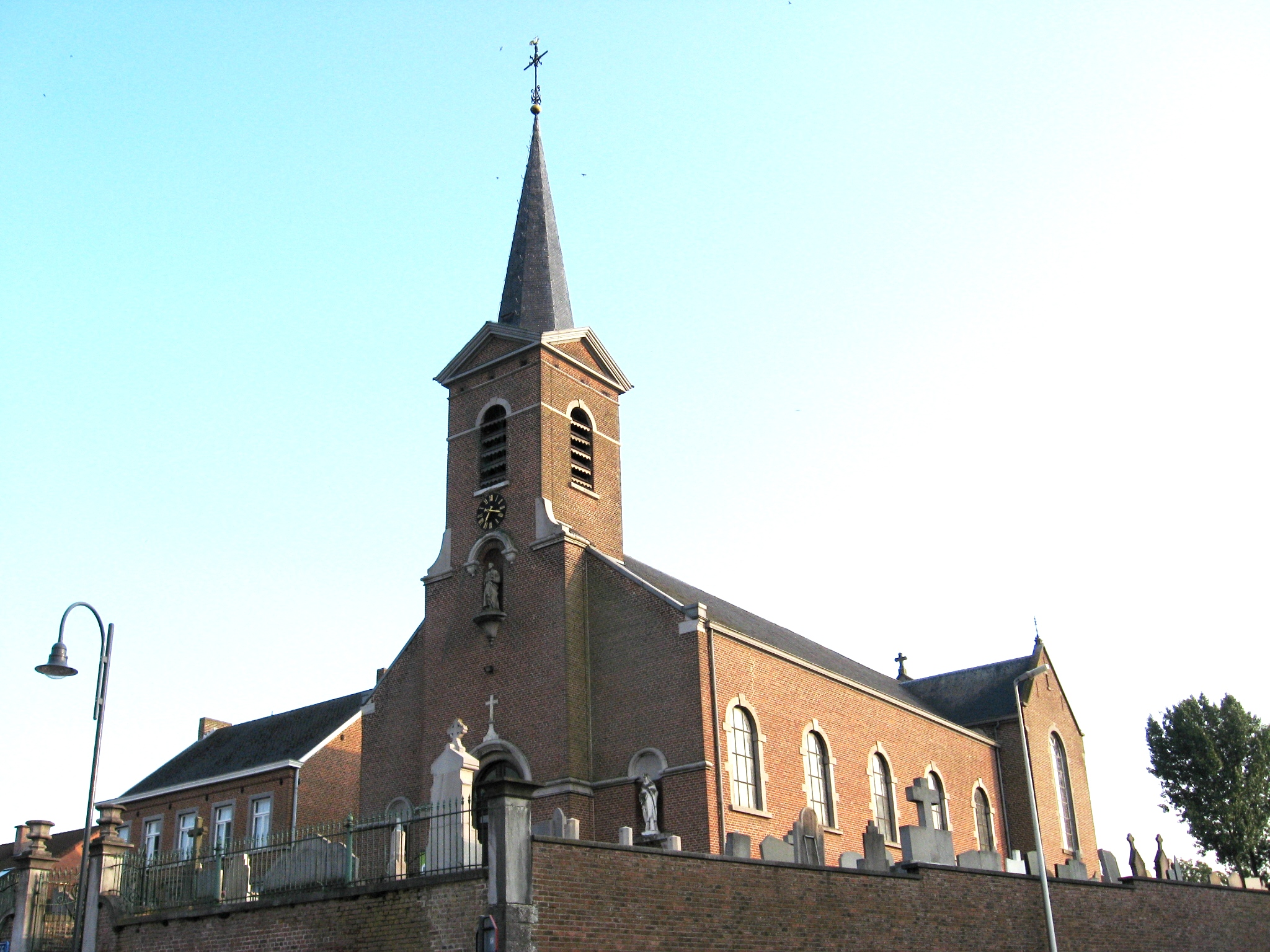 Church of Saint Peter in Borlo, Gingelom, Limburg, Belgium